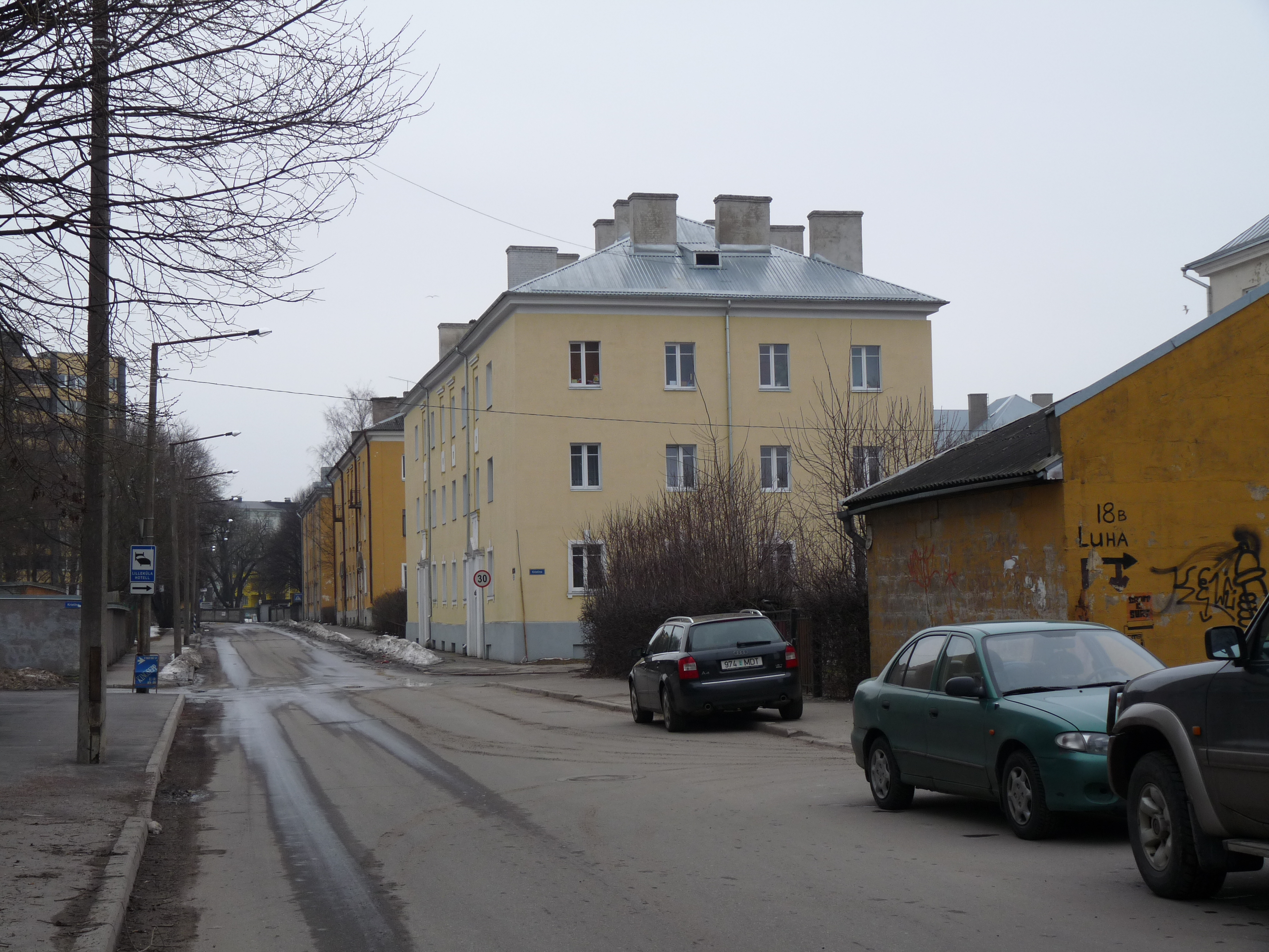 Luha and Kristiina strets intersection in Tallinn